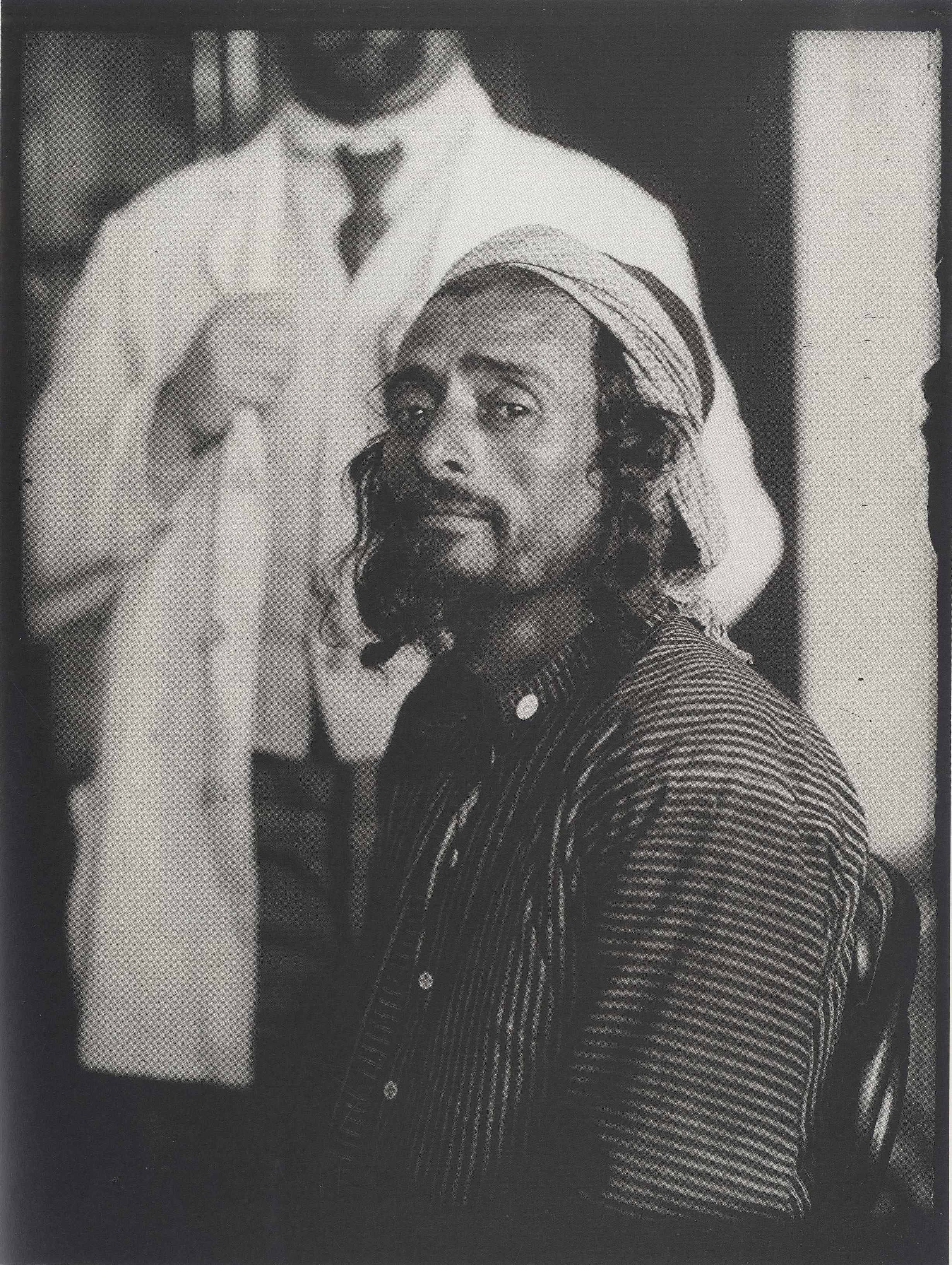 Young boy (from Yeman?), photo by Ephraim Moshe Lilien, 1906-1918.